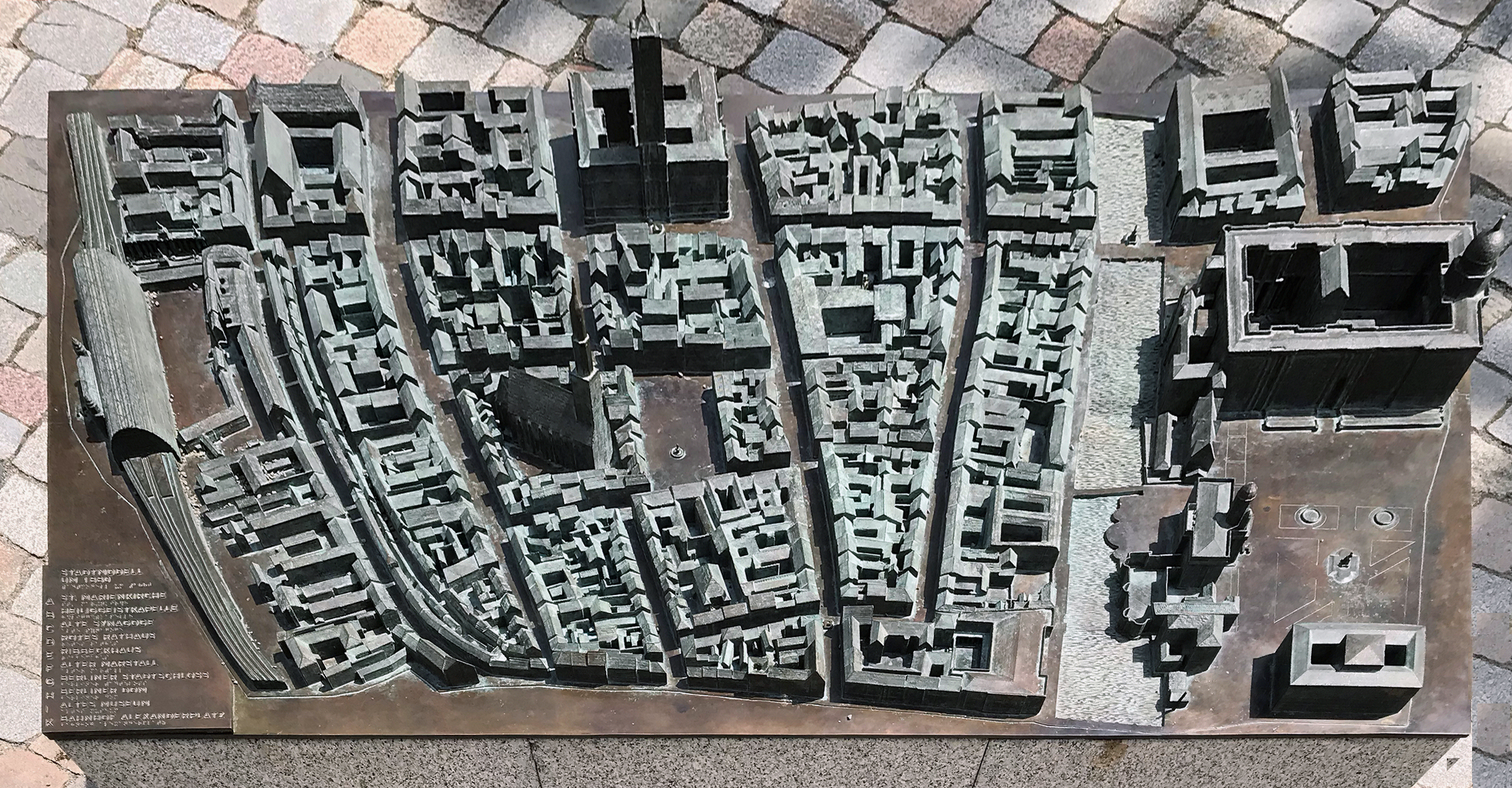 Relief, Berliner Stadtmodell 1880, Karl-Liebknecht-Straße 8, Berlin-Mitte, Germany